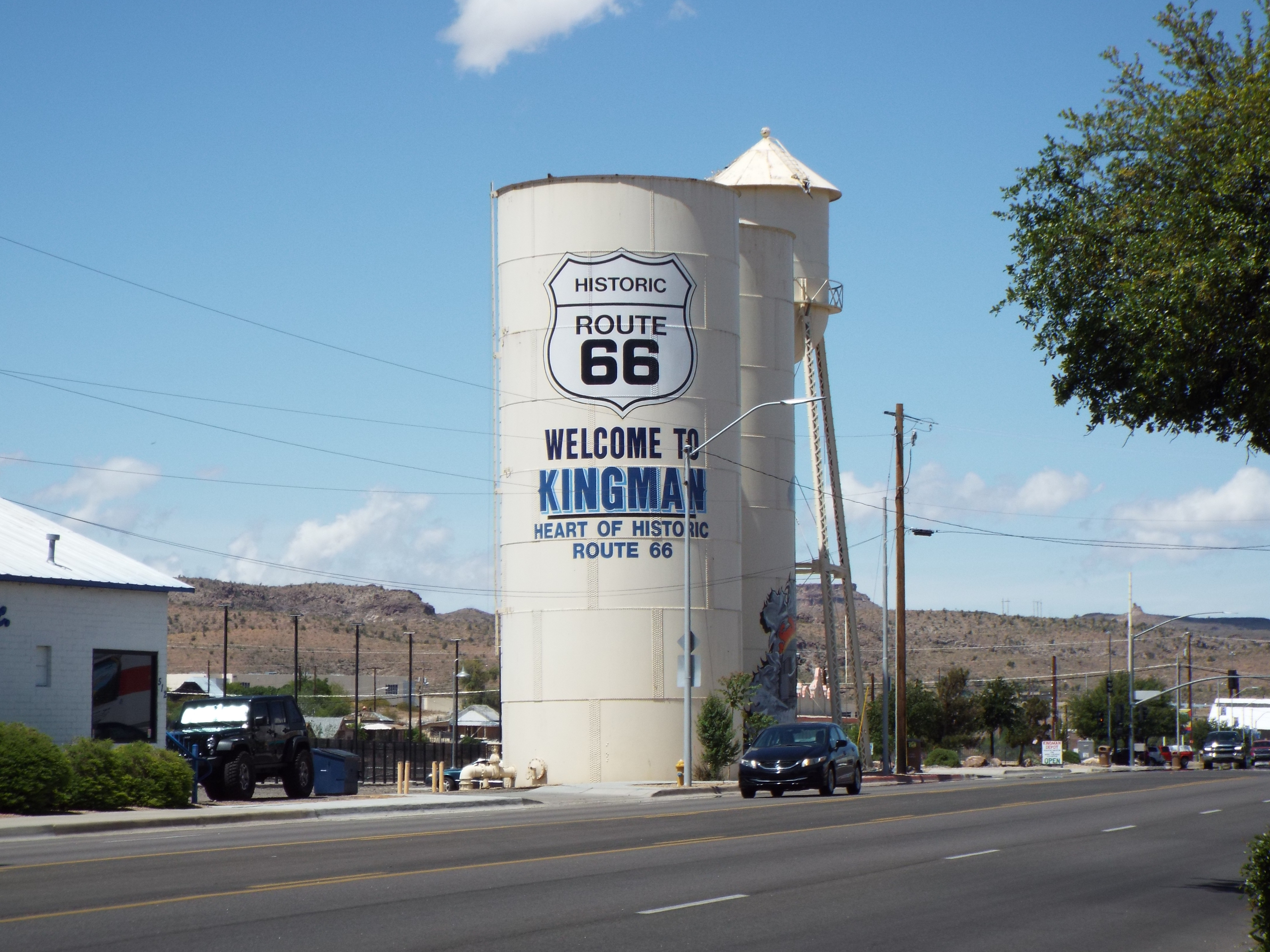 Railroad Fuel and Water Tanks-1906 in Kingman, Az